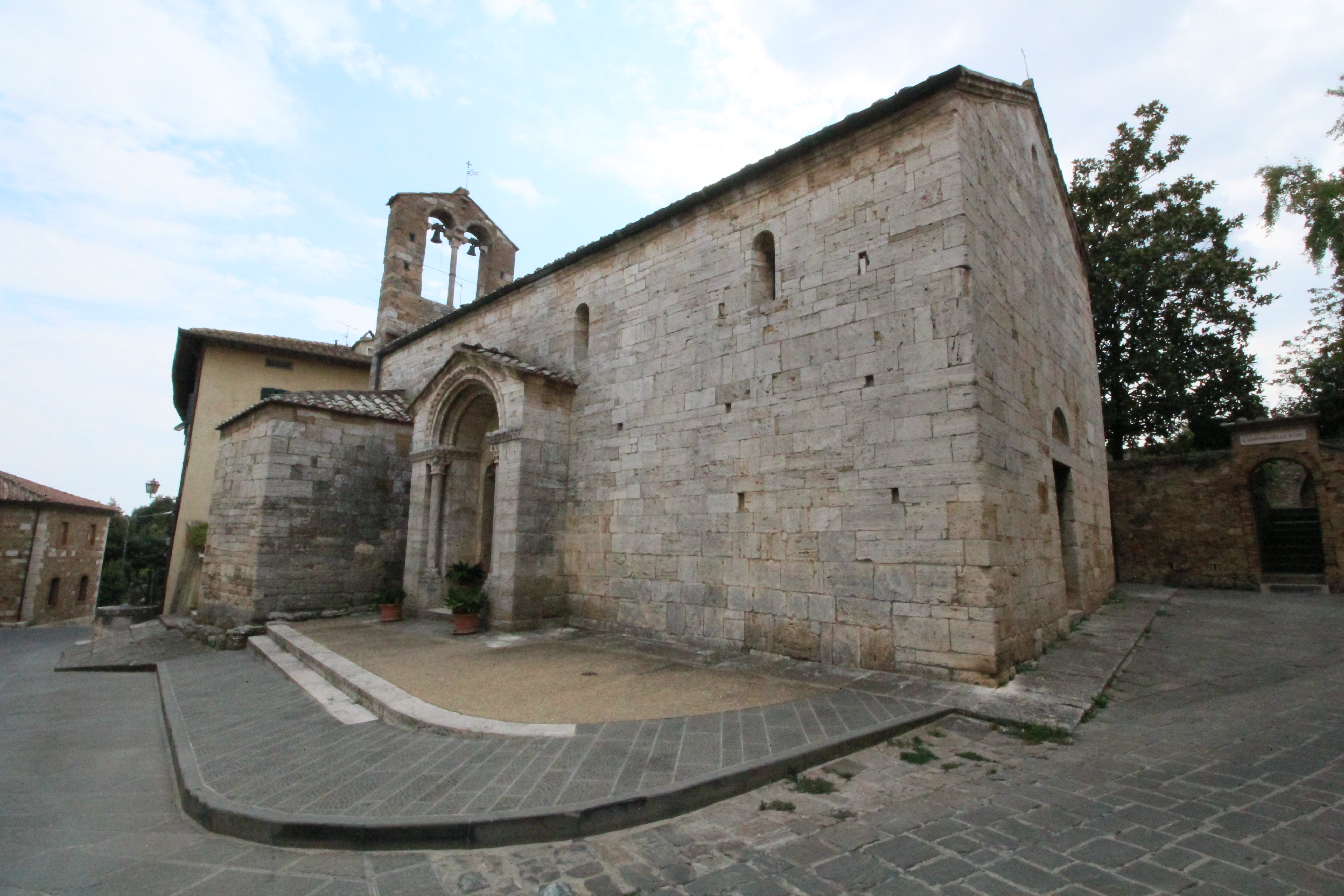 Church Santa Maria Assunta, inside the walls of San Quirico d’Orcia, Province of Siena, Tuscany, Italy